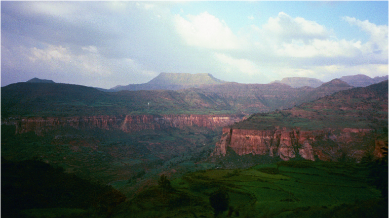 A canyon west of Adigrat in northern Tigray, Ethiopia.